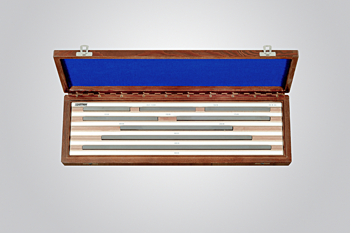 Herbert Hoffmann GmbH, 8 pcs, 125 mm - 500 mm